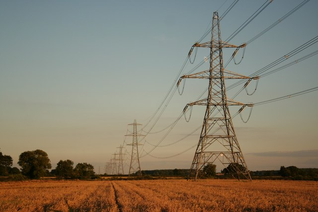 Pylons Pylons near Harby at dusk